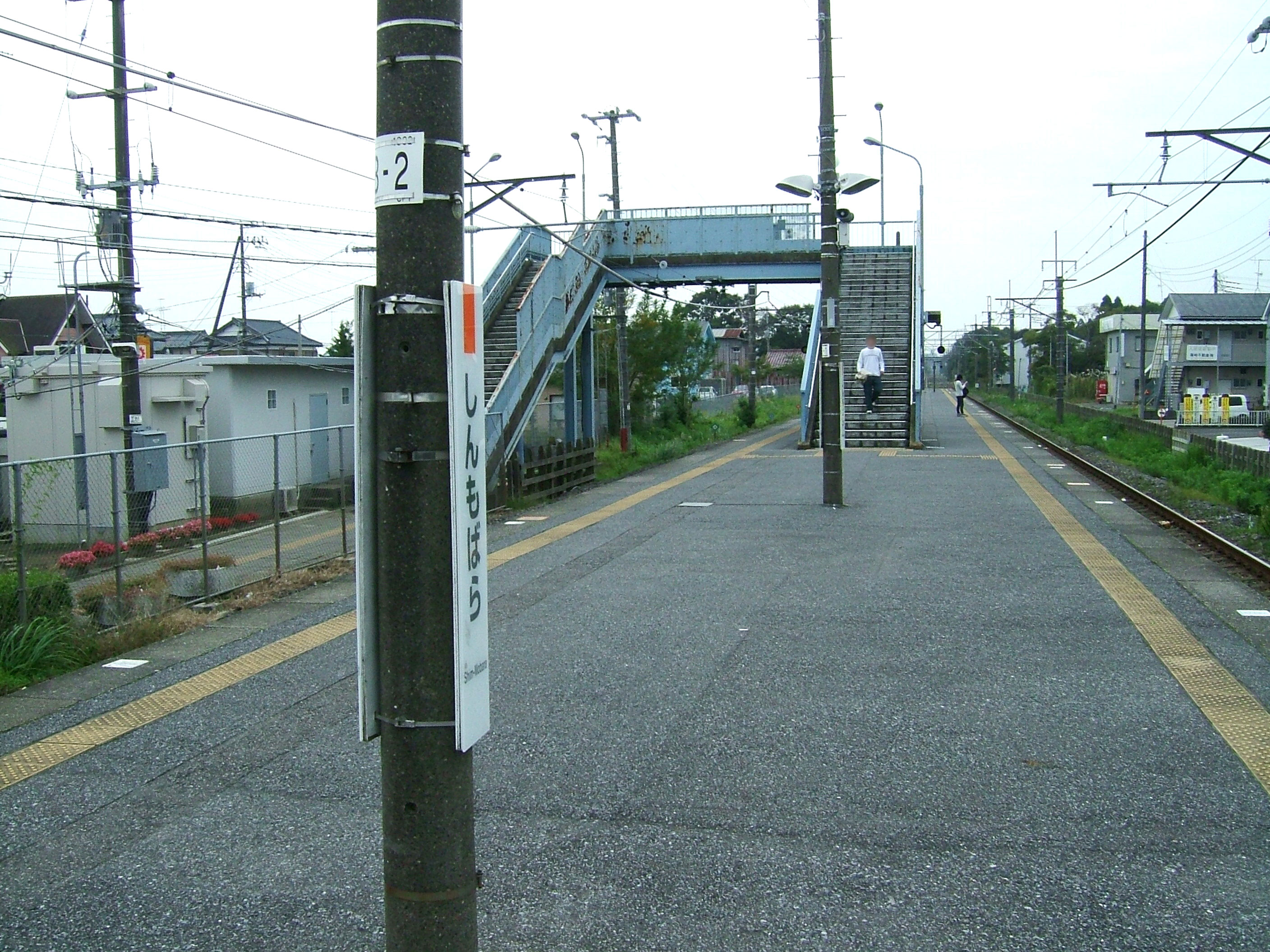 Shin-Mobara Station platform (East Japan Railway Sotobō Line)